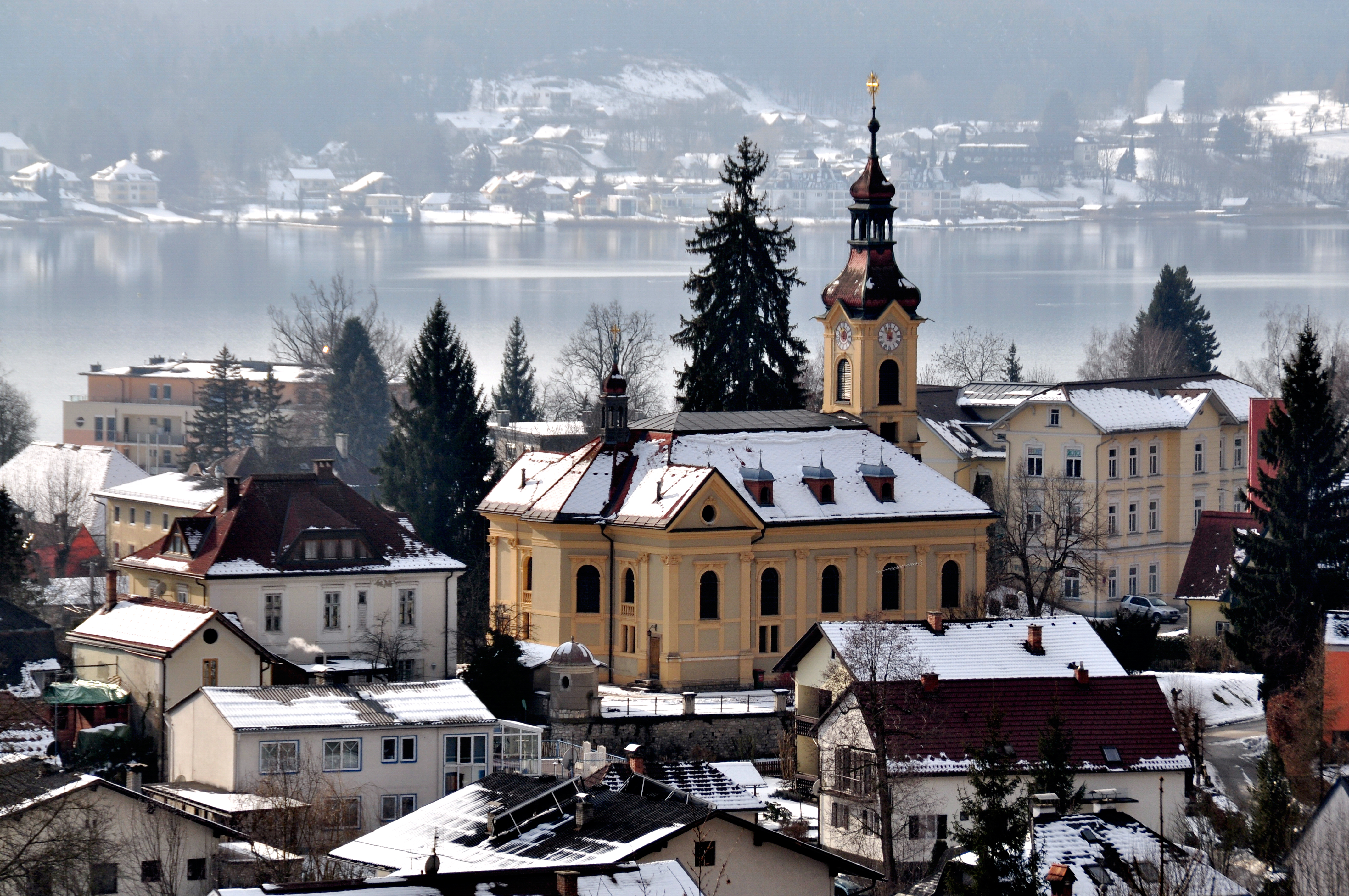 North east view at the parish church Holy John the Baptist, municipality Poertschach on the Lake Woerth, district Klagenfurt Land, Carinthia / Austria / EU